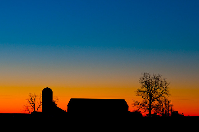 Sunset in Eminence, Kentucky, United States